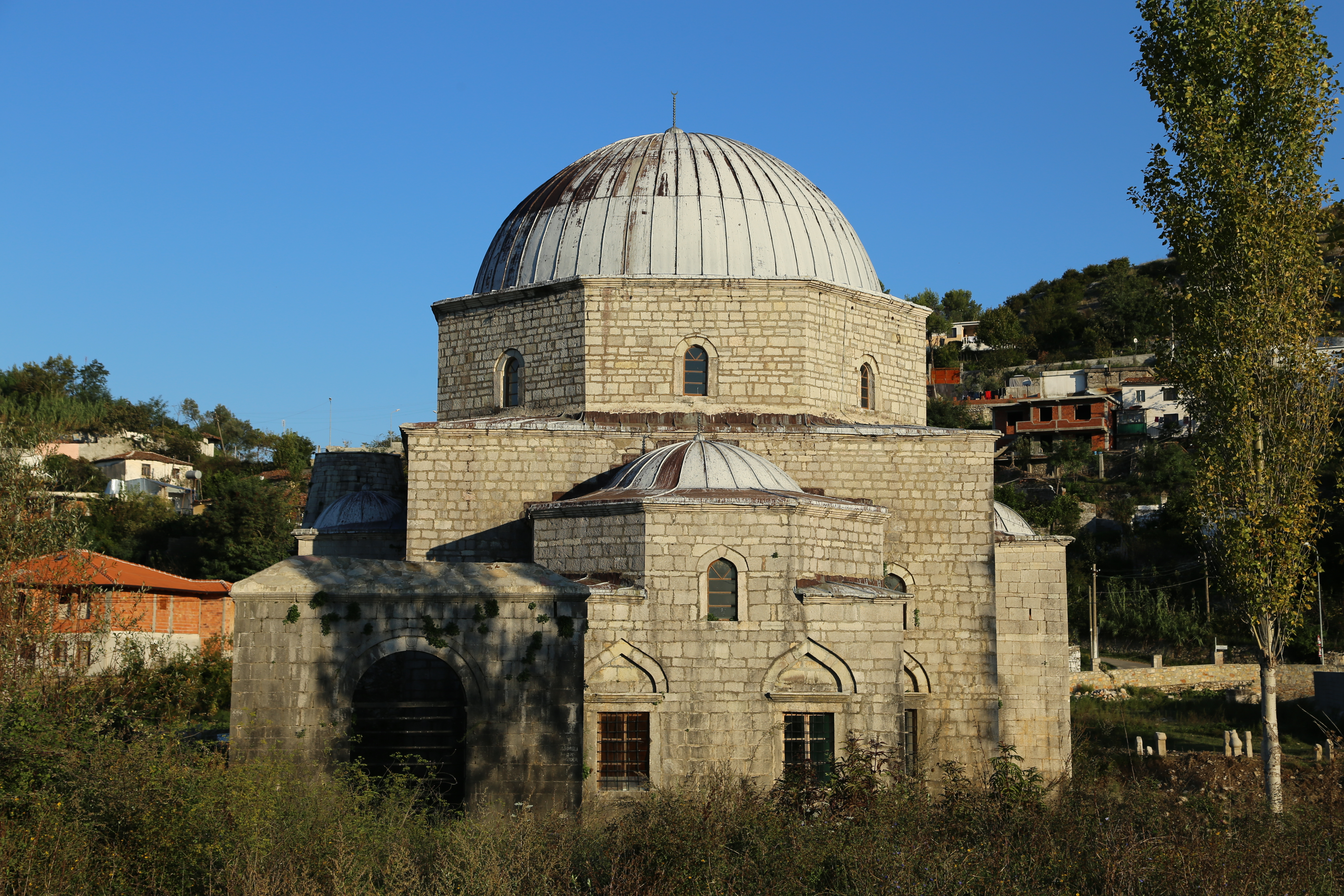 Lead Mosque, Shkodër